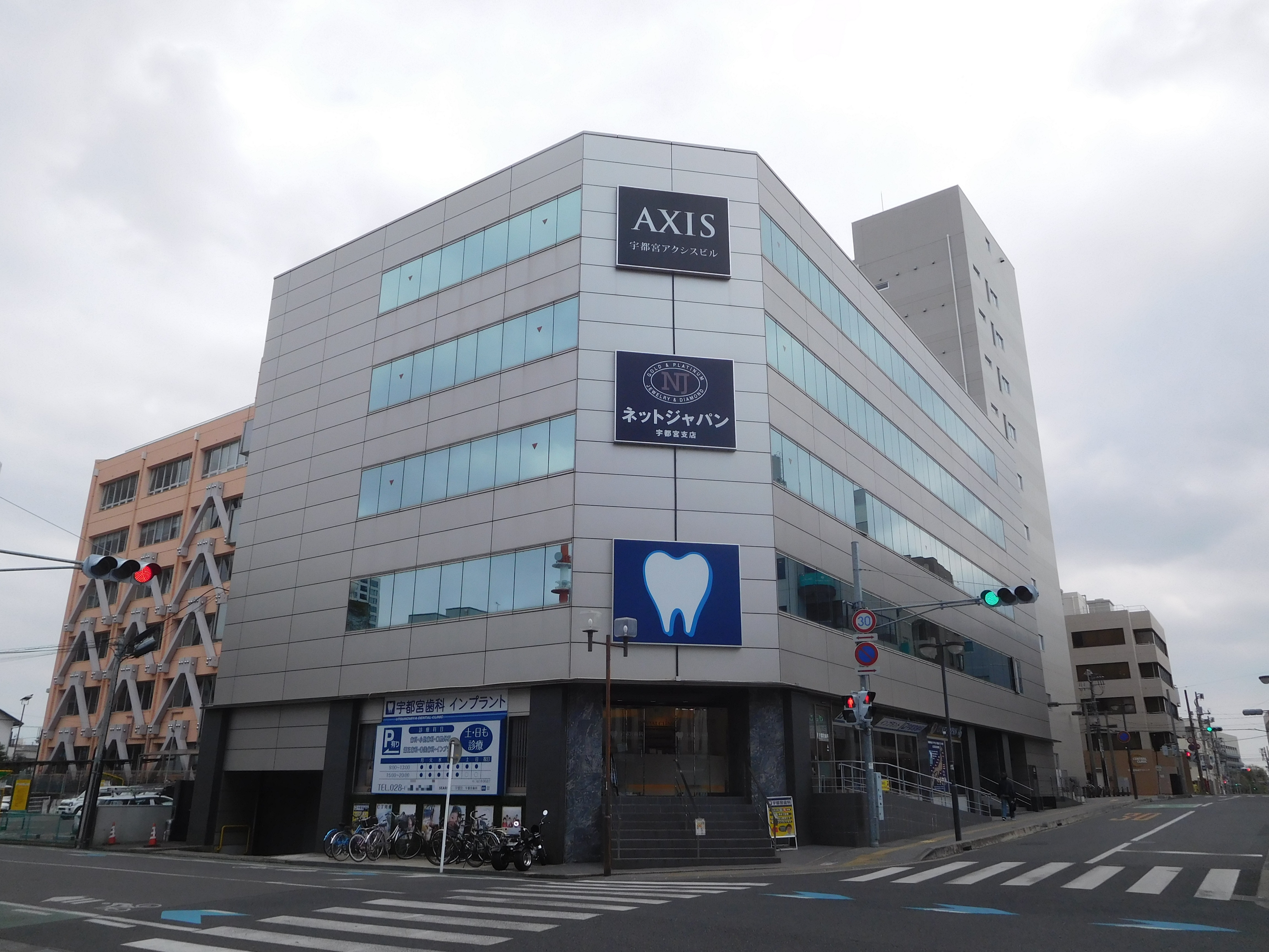 This is Utsunomiya AXIS Building in Utsunomiya, Tochigi, Japan. It has the headquarters of Utunomiya light rail Co., Ltd.